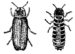 Glowworm (Lampyris noctiluca), male to the left, female to the right